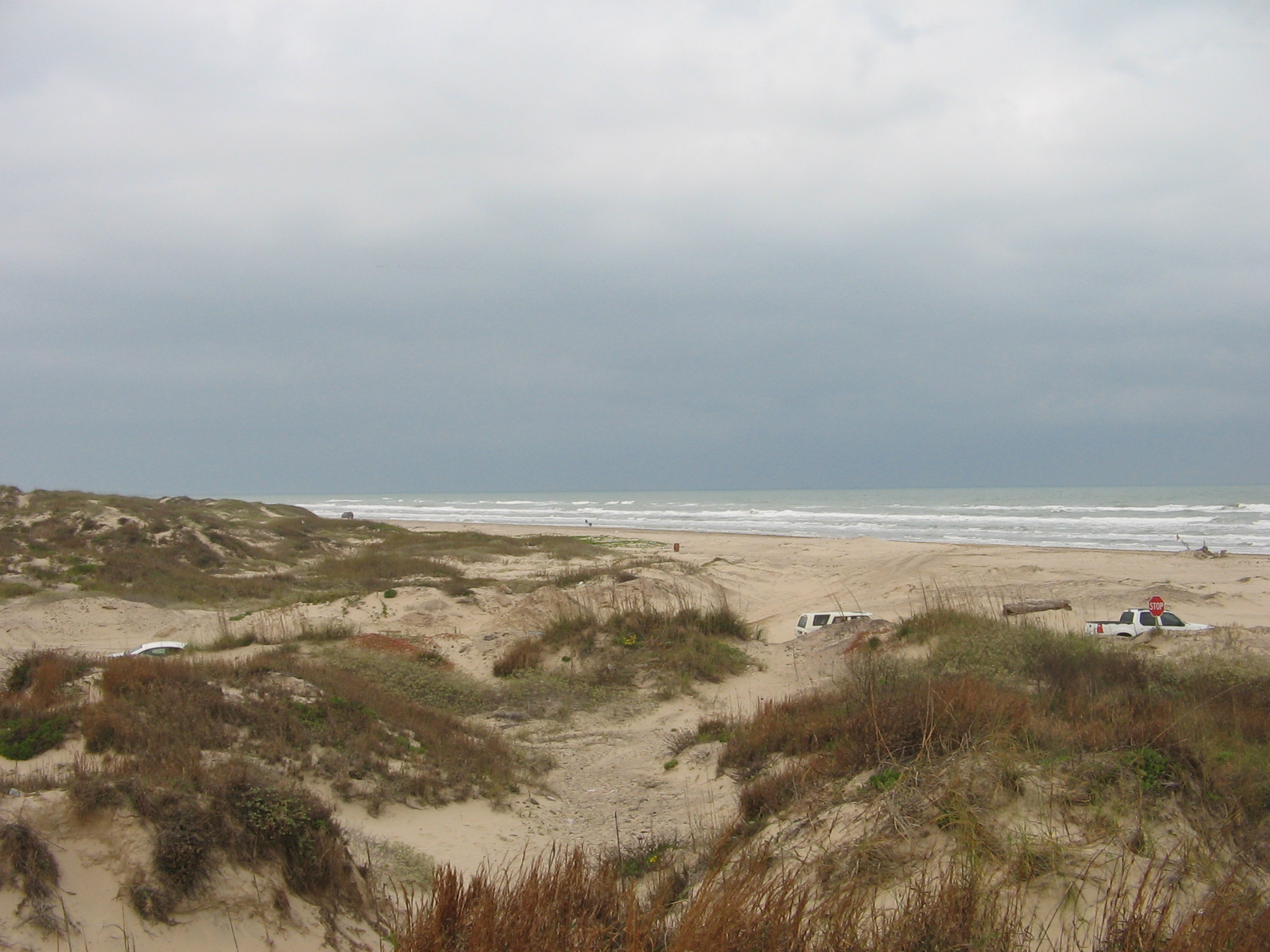 Sand Dunes at the Boca Chica park in southeast Texas.